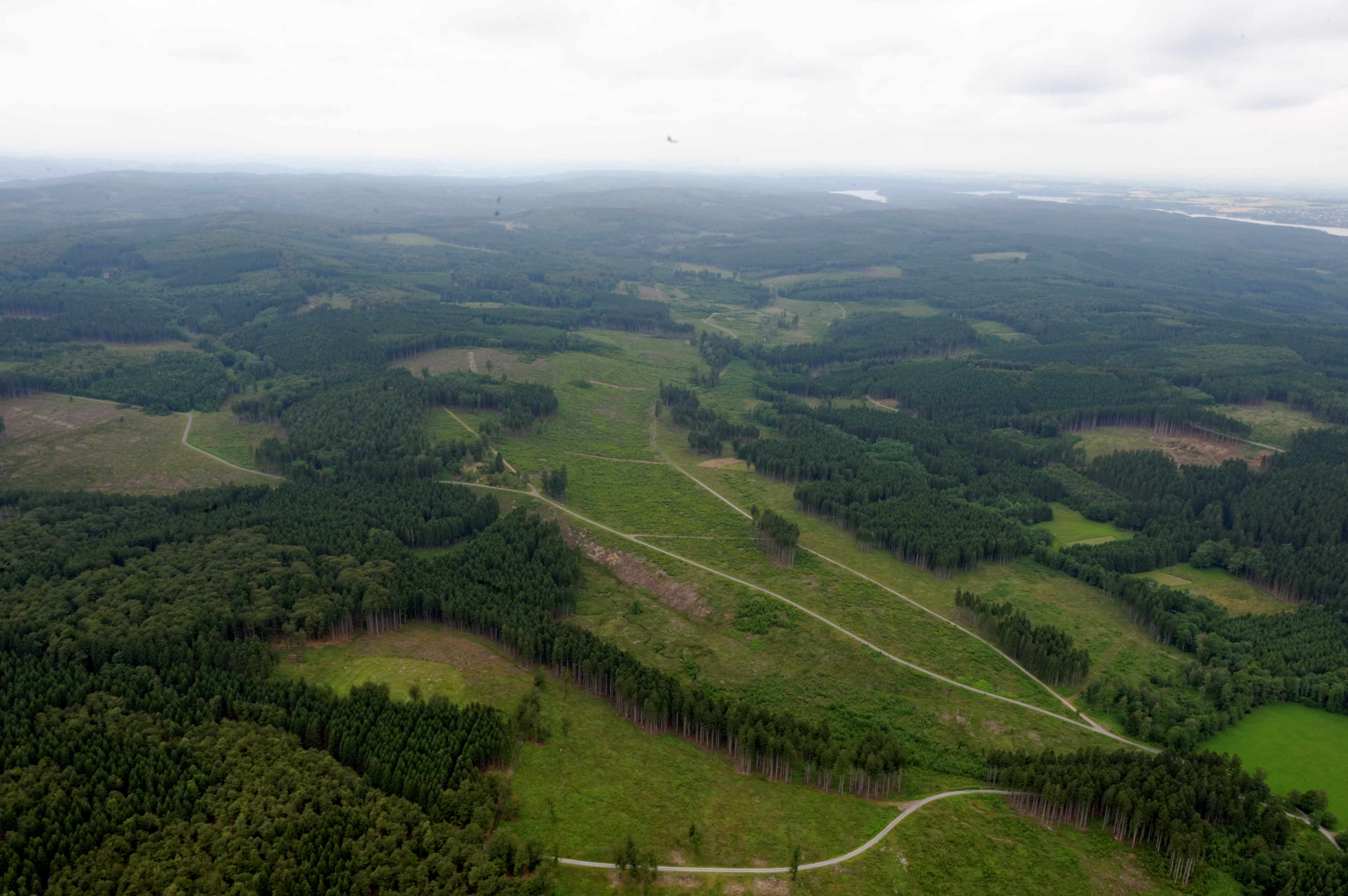 Fotoflug Sauerland Nord, Arnsberger Wald mit ehemaligen Windwürfen und Möhnesee aus Richtung Südosten The making of this document was supported by the Community-Budget of Wikimedia Germany.